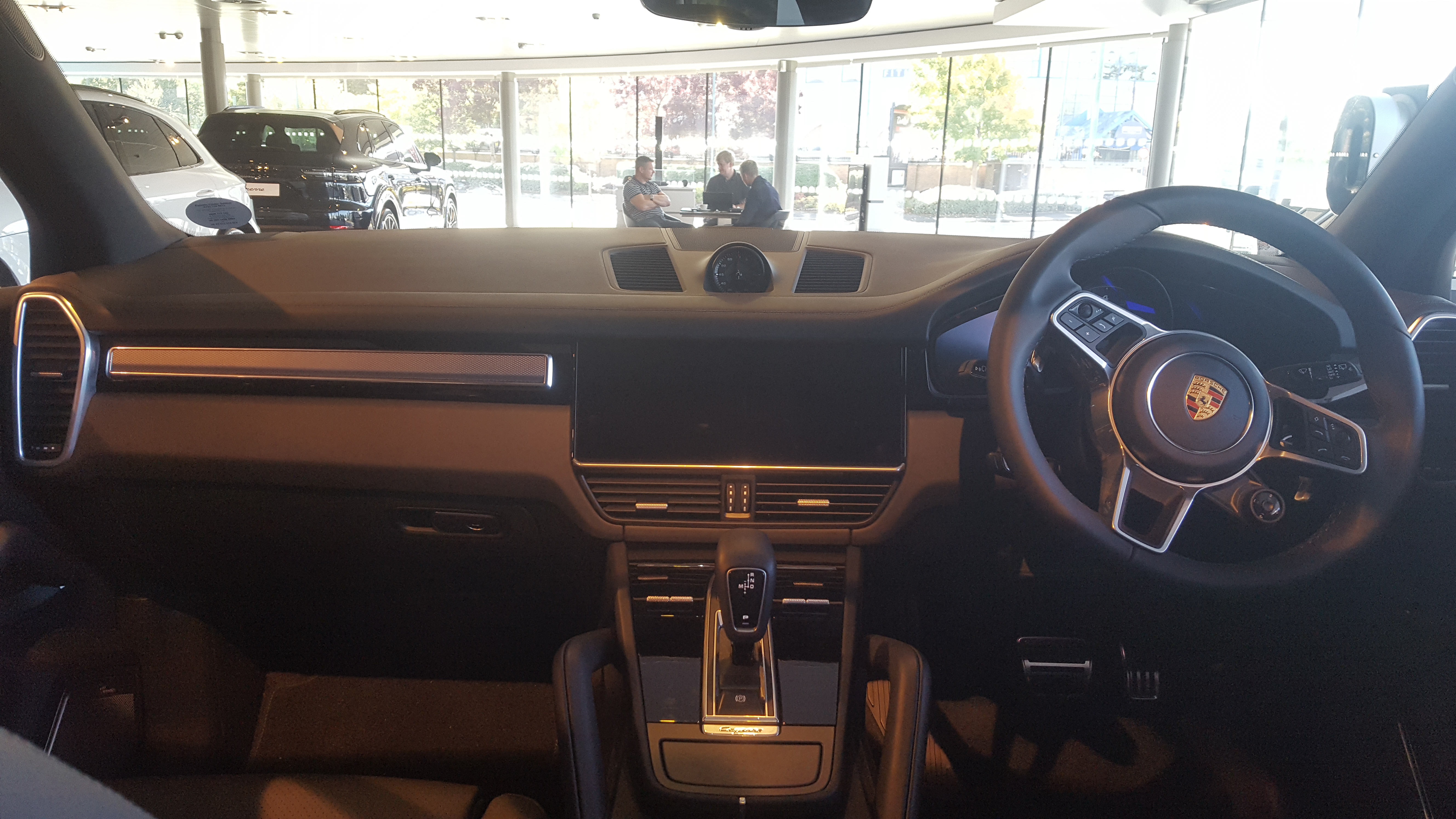 2018 Porsche Cayenne S Interior Taken in Solihull